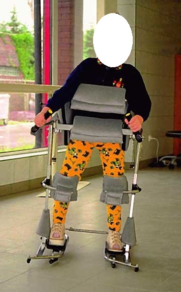 Аппарат на нижние конечности и туловище(динамический параподиум) использование